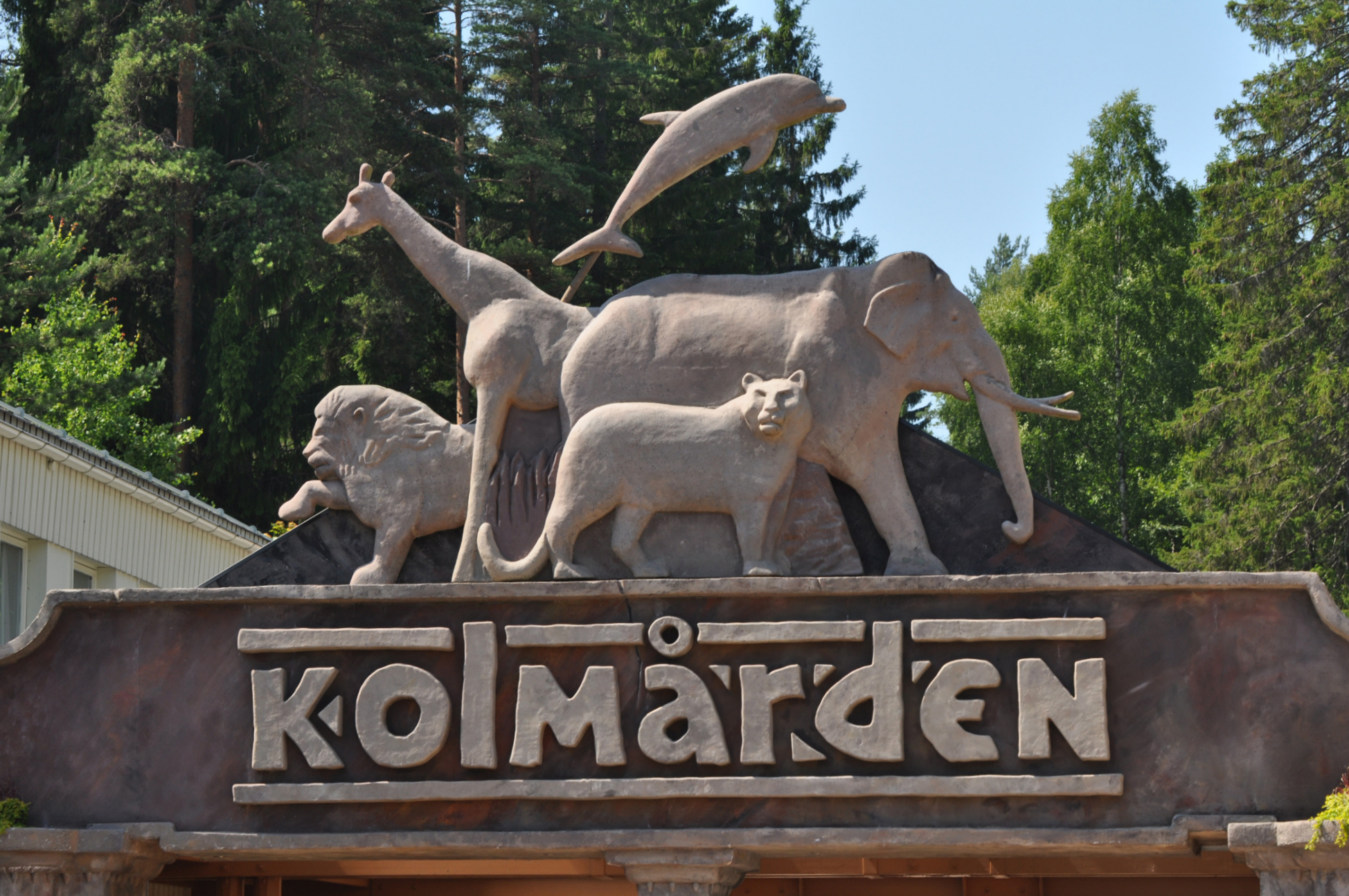 Kolmården Wildlife Park entrance